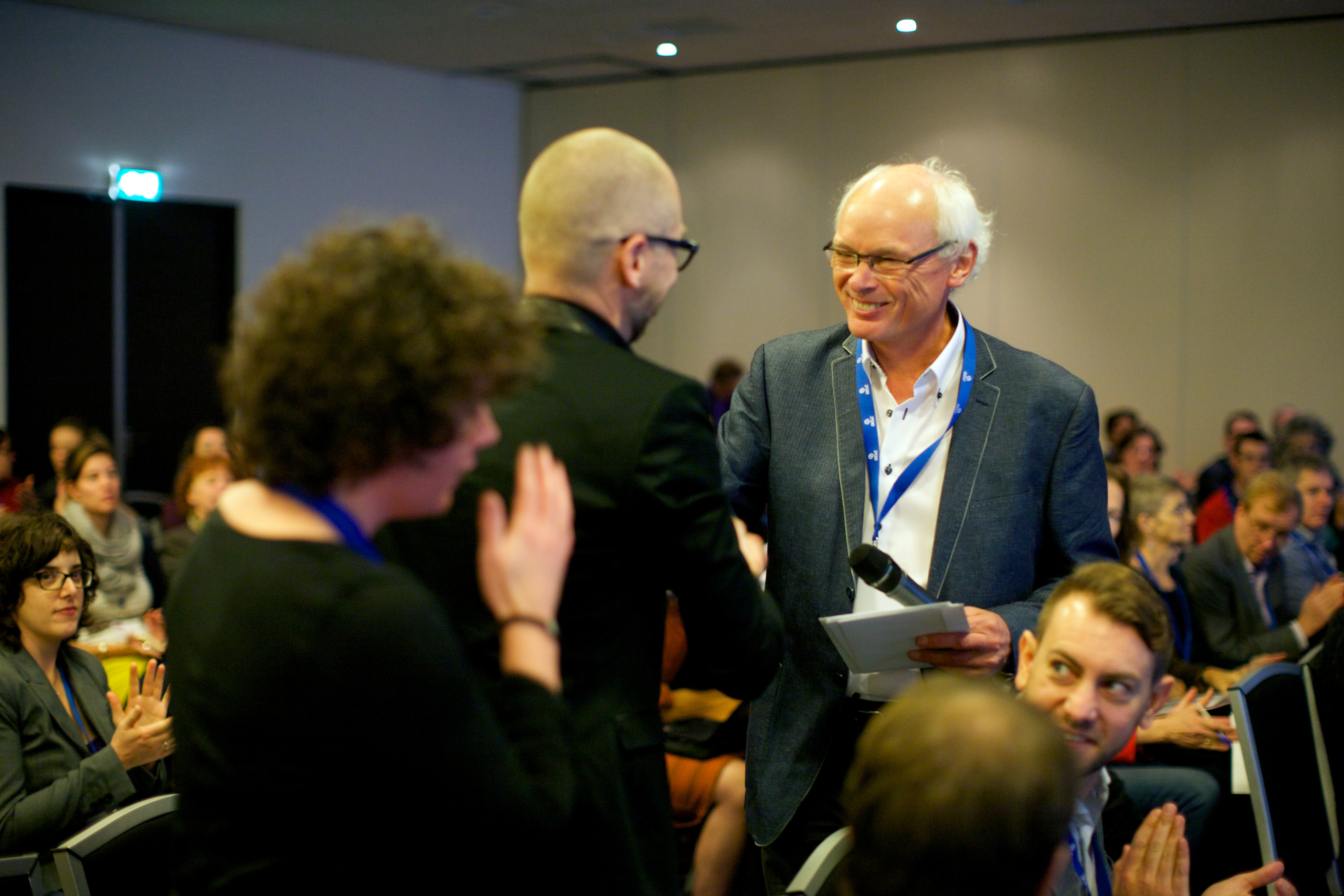 KNVI voorzitter Michel Wesseling bedankt vrijwilligers tijdens het KNVI Congres 2013 (Koninklijke Vereniging van Informatieprofessionals)